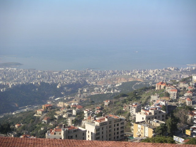 Beit Mary - Lebanon